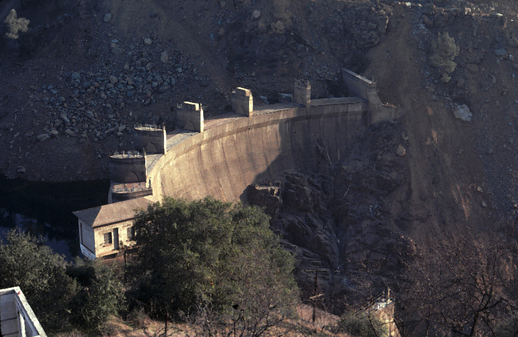 The Old Melones Dam prior to being submerged by the New Melones Dam.